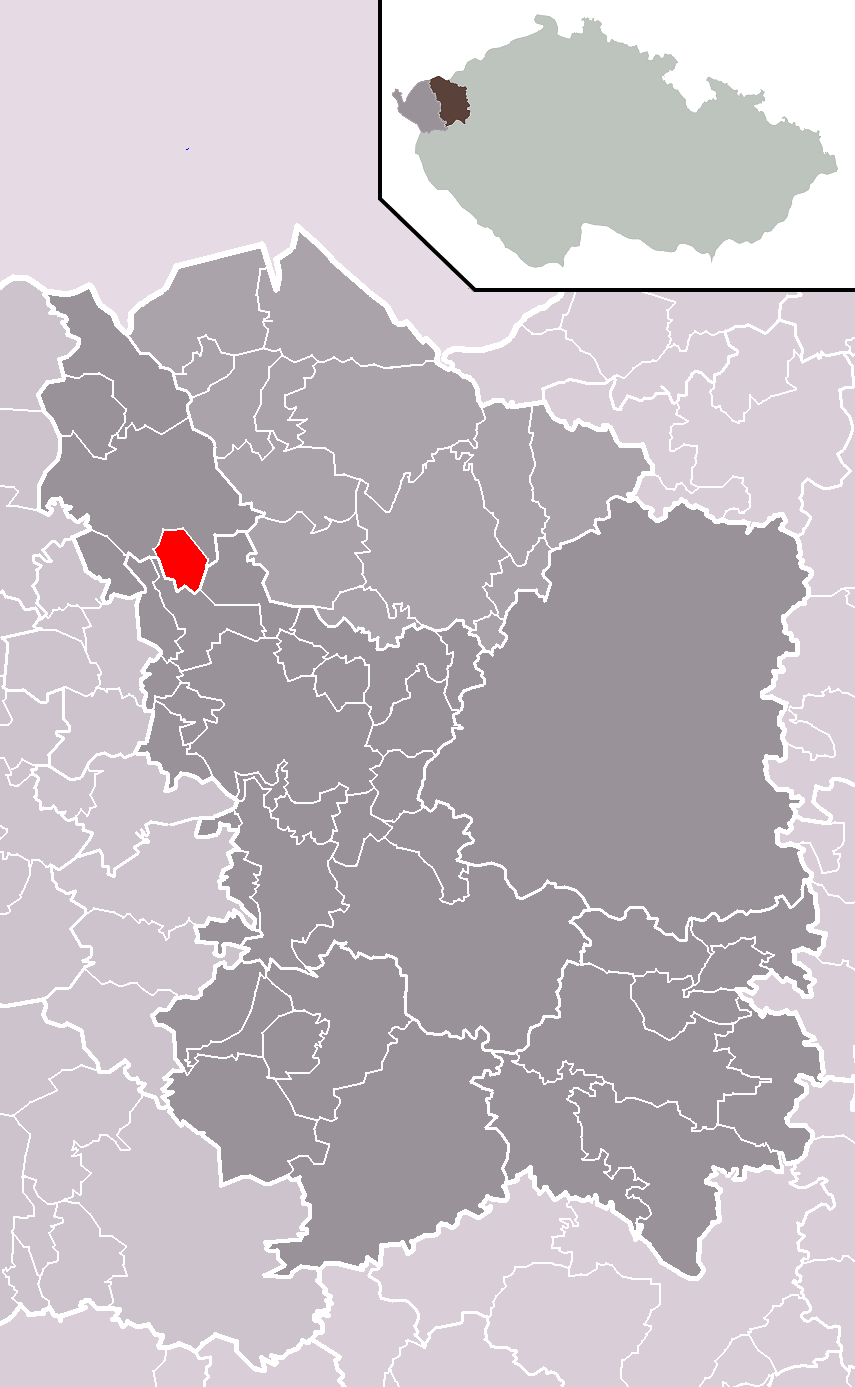 Location of Smolné Pece municipality within Karlovy Vary District and administrative area of Karlovy Vary as a Municipality with Extended Competence.